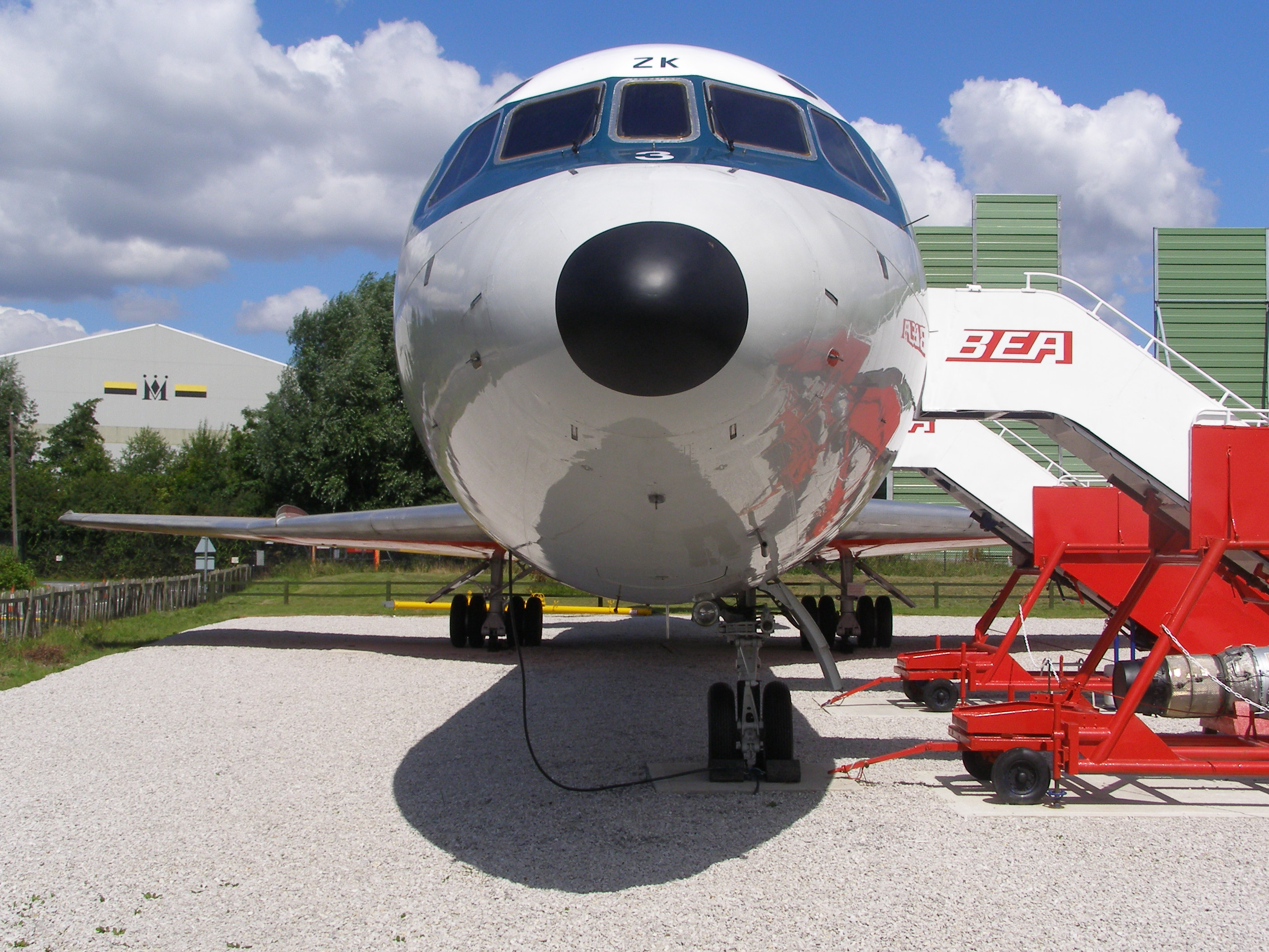 Hawker Siddeley Trident registered G-AWZK preserved at Manchester Airport (front view to show offset nosewheel)